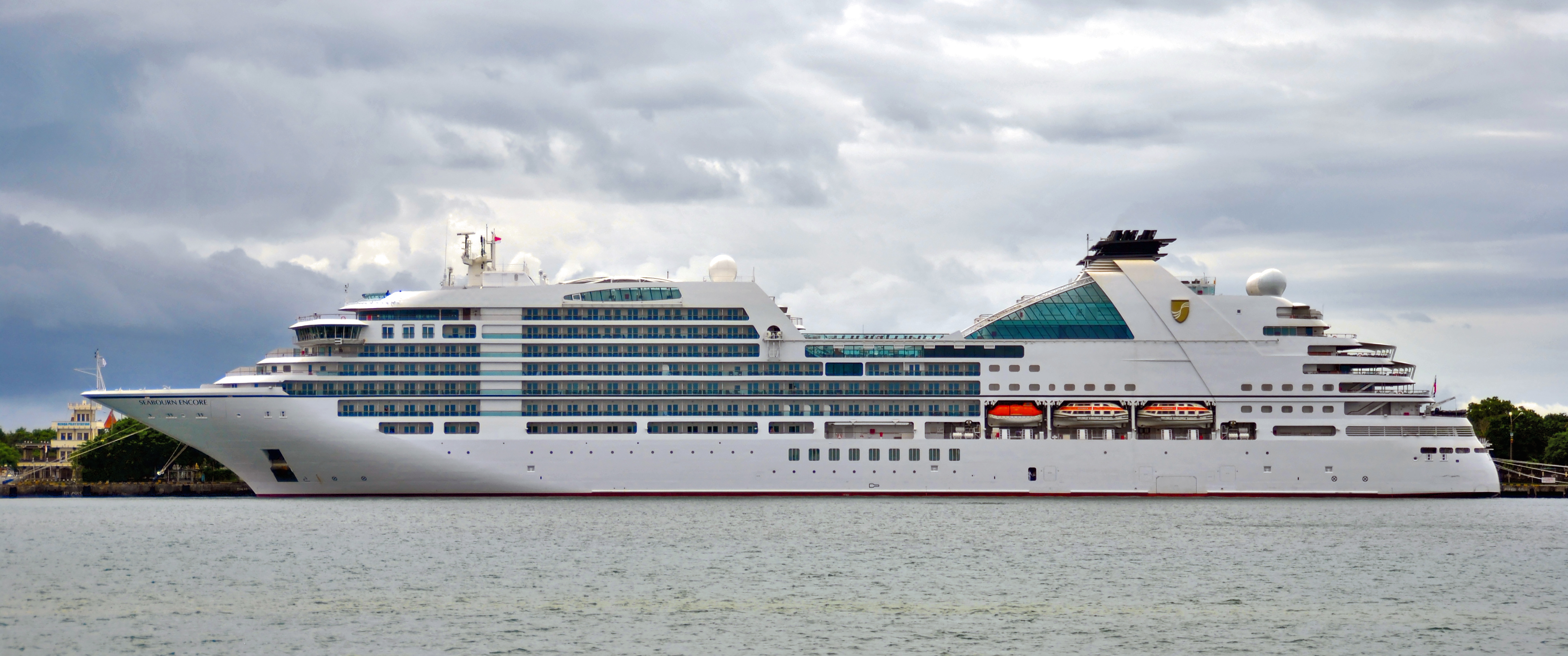 Seabourn Encore, berthed at Benoa, Denpasar, Bali, Indonesia. It was taken during her maiden 10 days Singapore-to-Bali voyage.